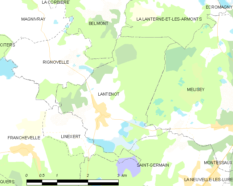 Map of French municipality